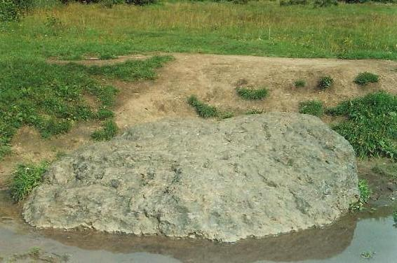 Blue Rock